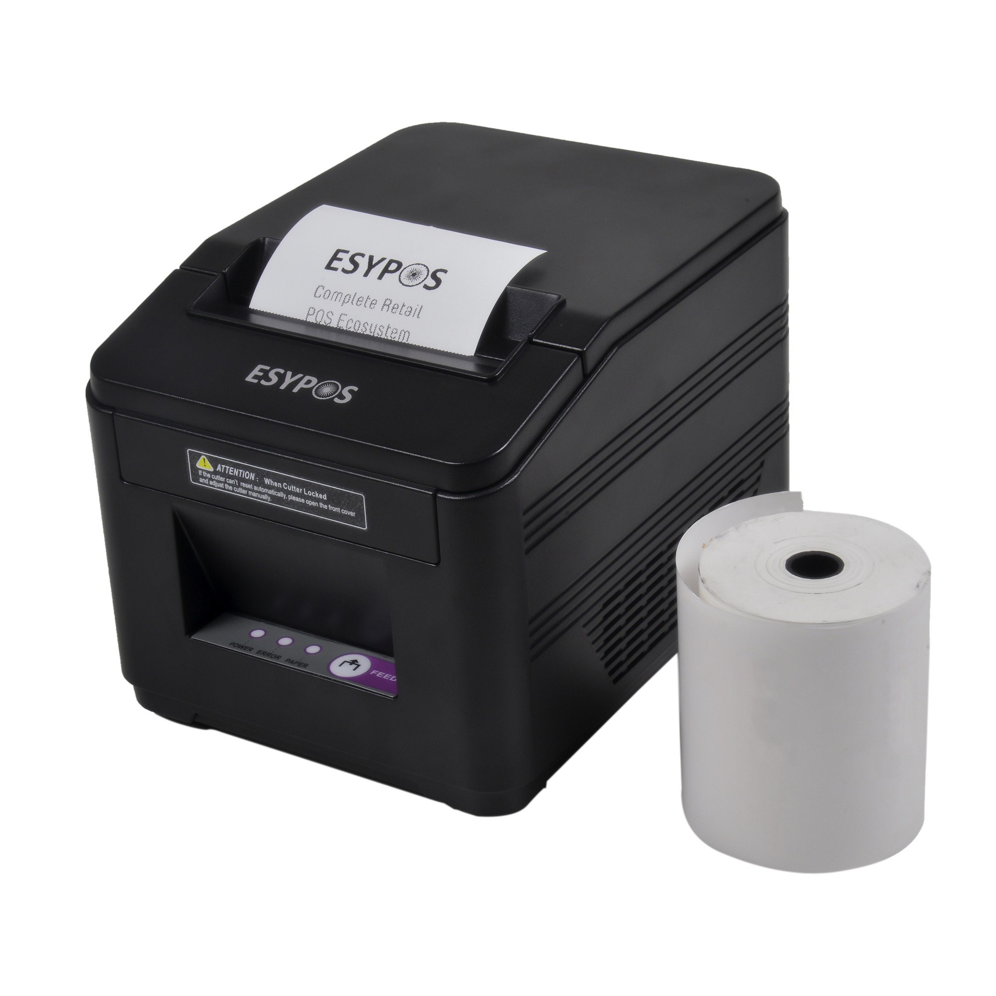 ESYPOS label printer moel ELP 531T